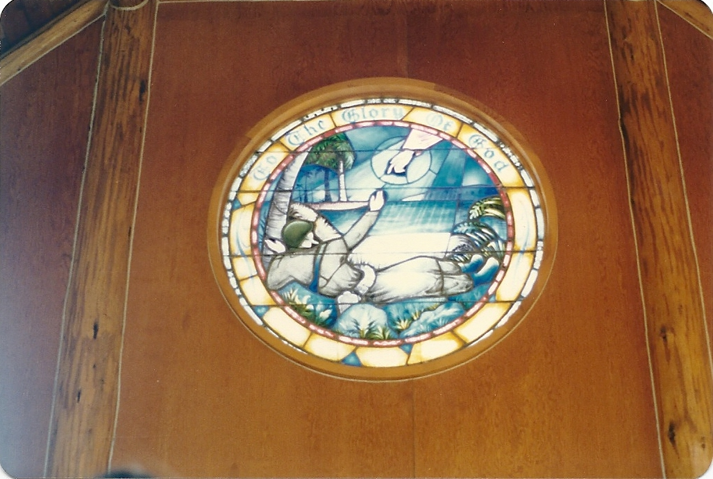 Stained Glass at Soldiers Chapel, Gallatin County, Montana, this is a memorial to the 163rd Infantry Regiment of World War II. The words on the glass say "to The Glory of God" and it shows the hand of God reaching down to a fallen soldier.